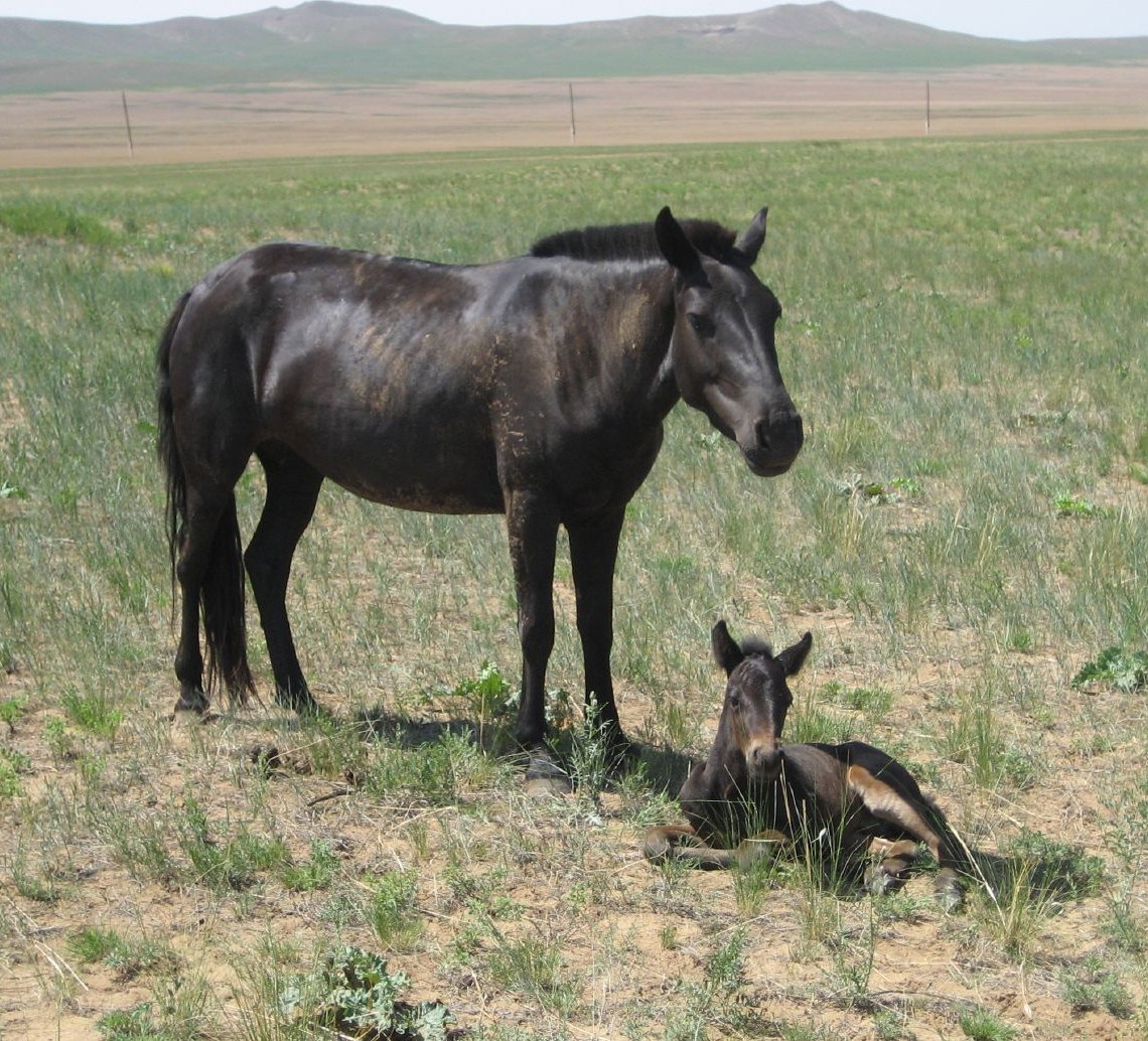 Mongolian Mare and Foal